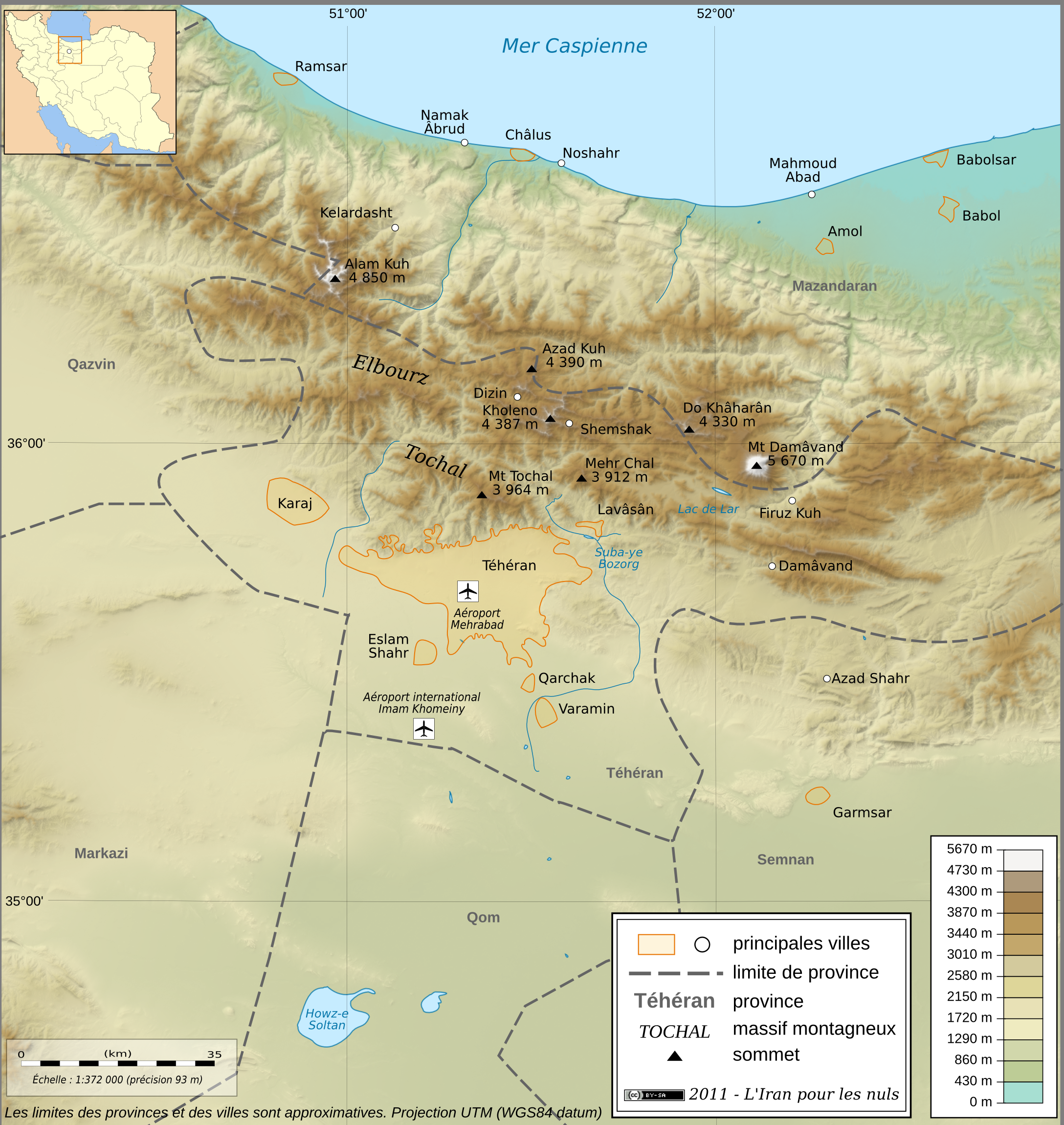 Topographic map in French of the Tehran area in Iran.Note : The shaded relief is a raster image embedded in the SVG file.